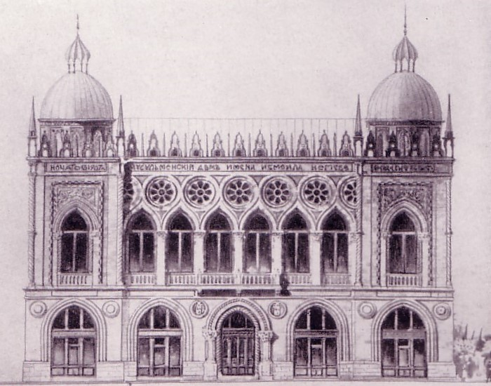 Ismailiya building in Baku